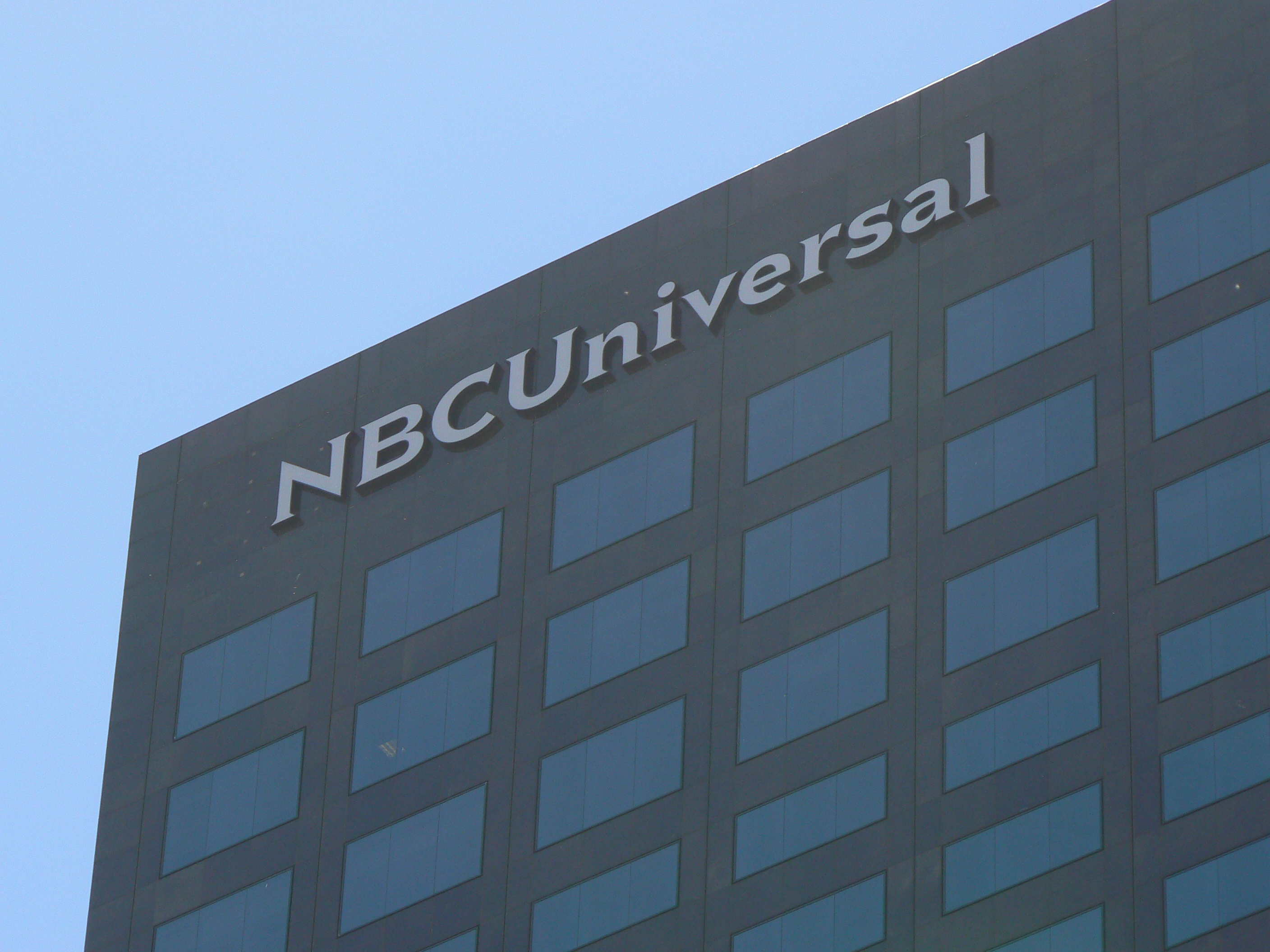 10 Universal City Plaza, before the addition of Comcast signage.